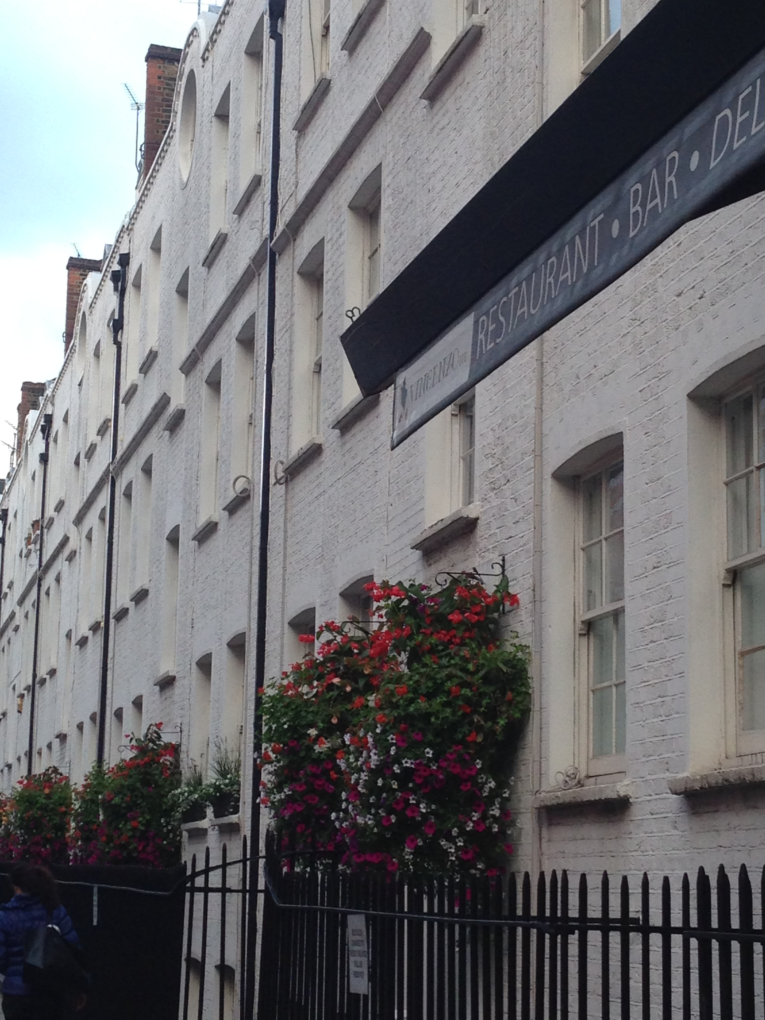 Cranfield Court, Homer Street, London W1